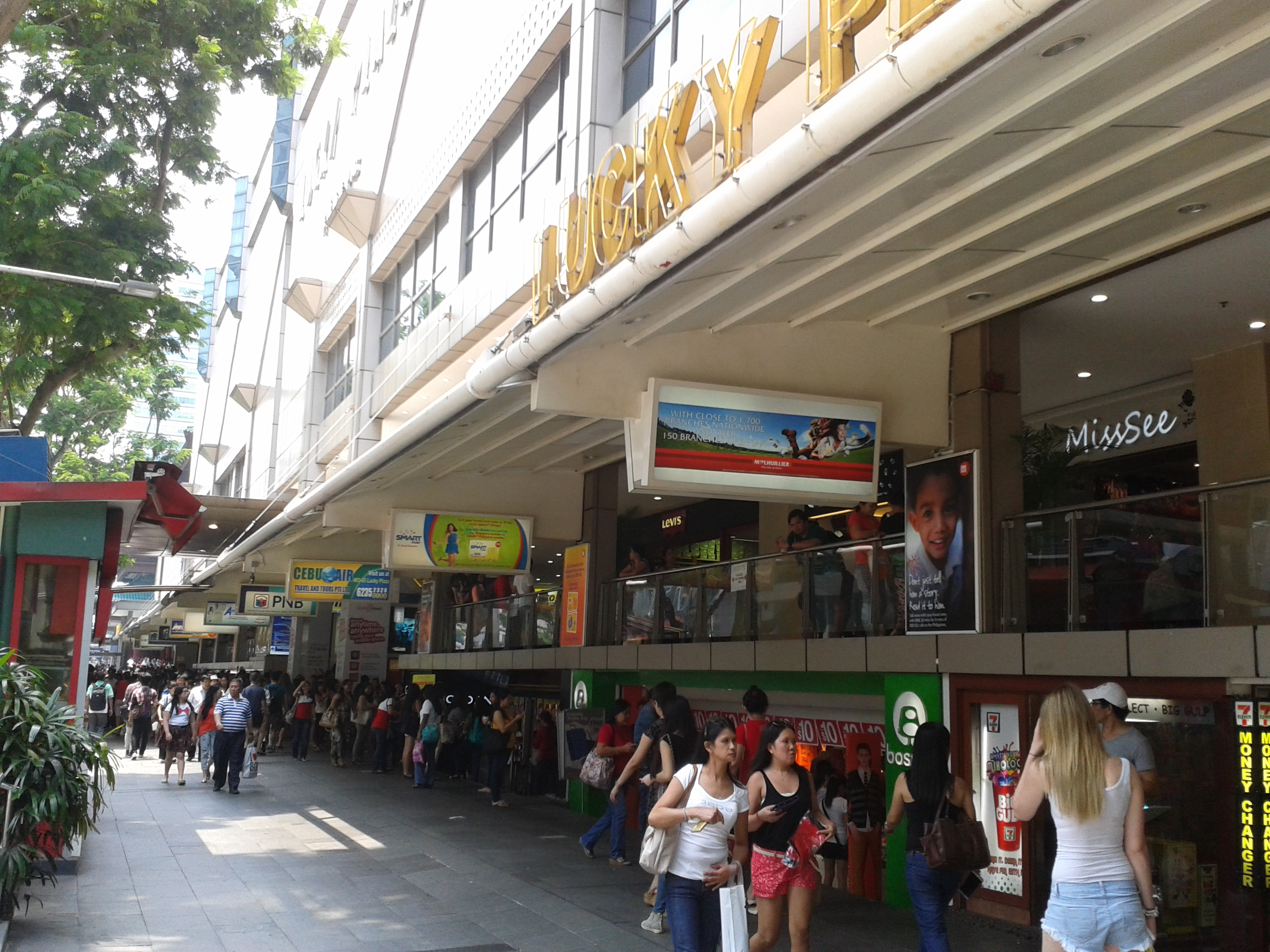 Facade of Lucky Plaza mall in Orchard Road in Singapore. Picture taken on a Sunday afternoon where many Filipinos use as their hangout area.